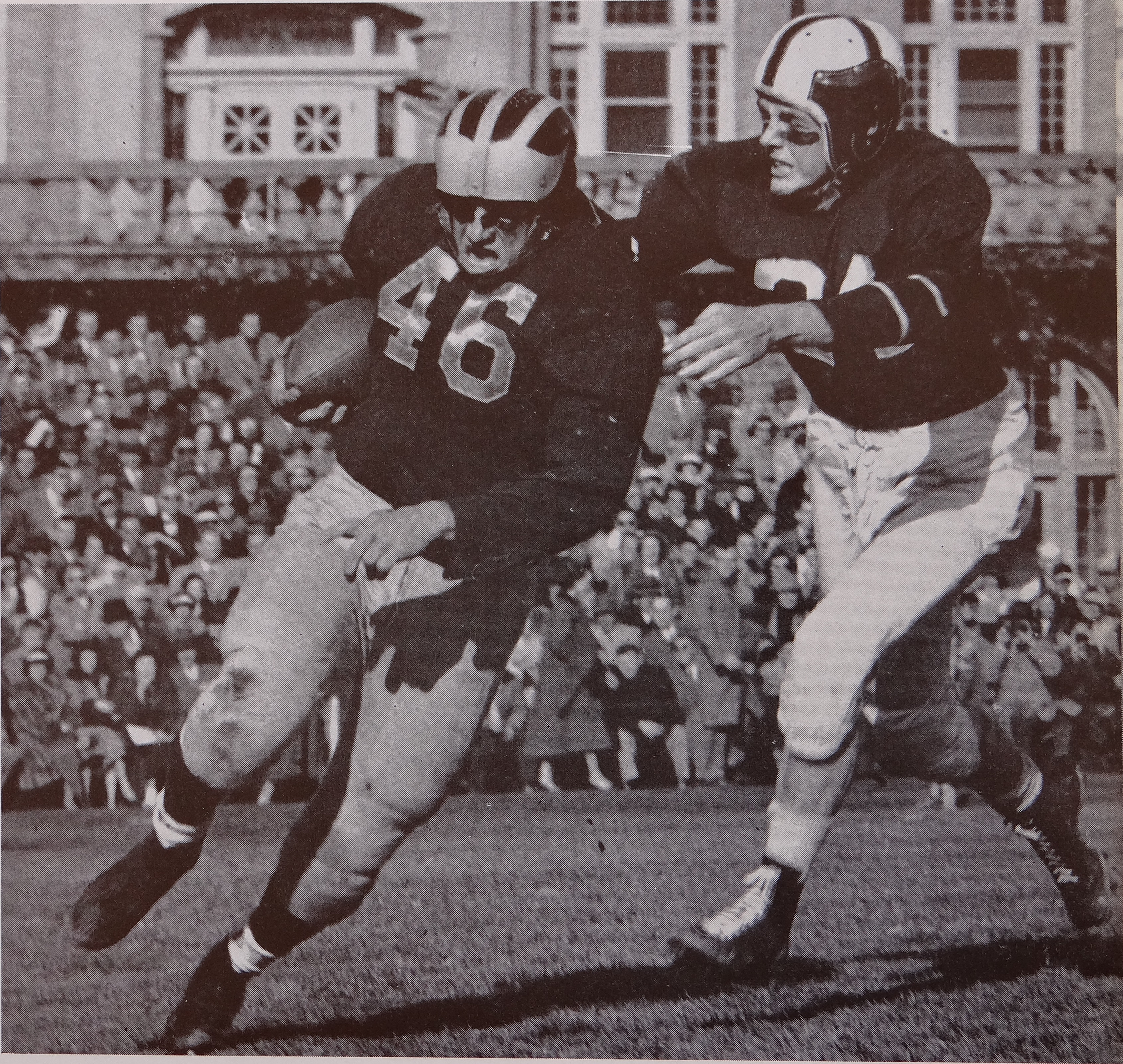 Photograph of Don Peterson (American football) (Michigan No. 46), Most Valuable Player on the 1951 Michigan Wolverines football team